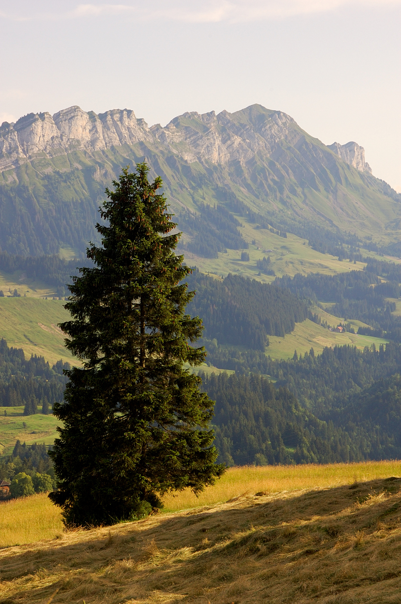 View from Finsterwald to Äbnistettenflue, Entlebuch region, Switzerland